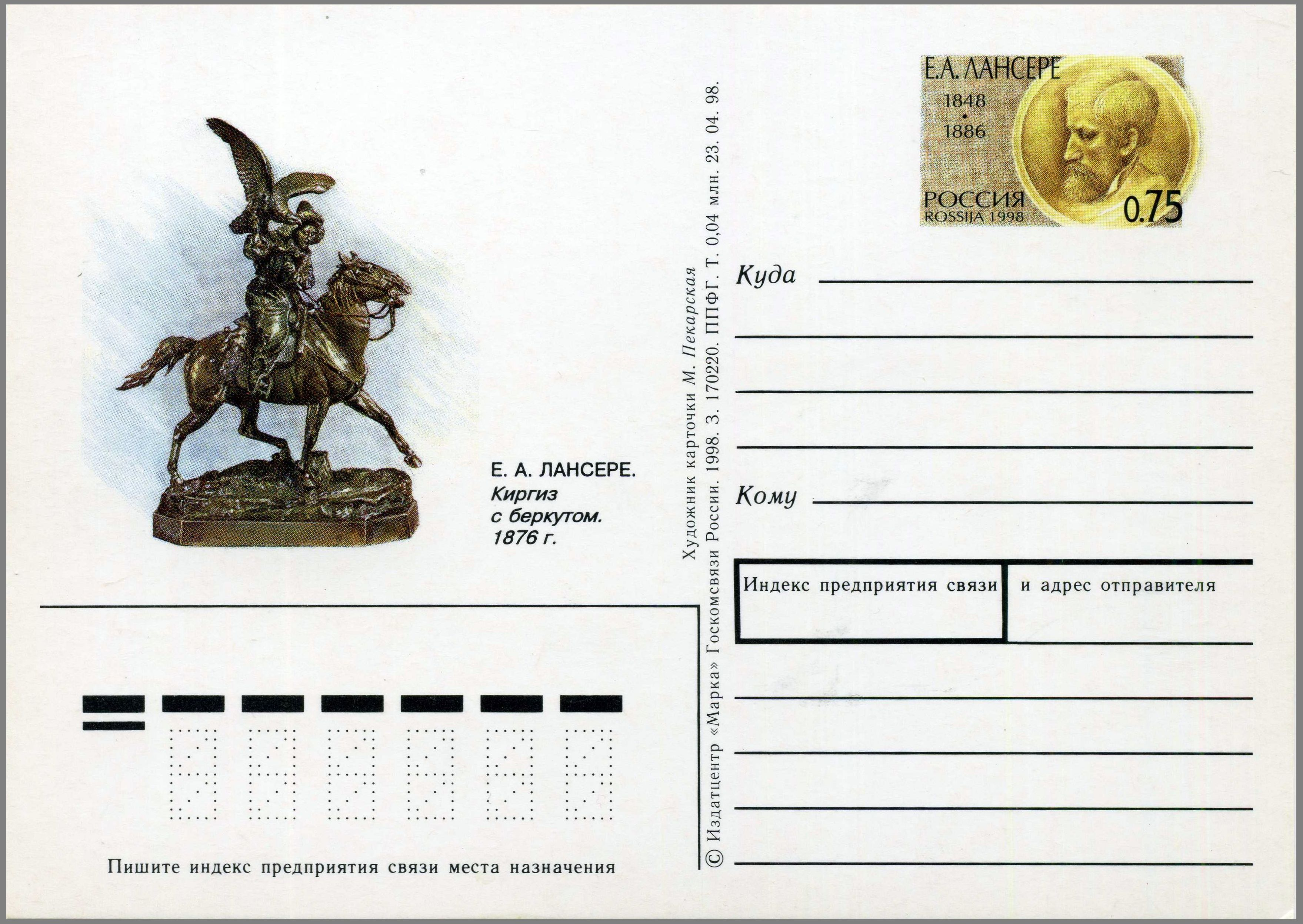 Eugene Aleksandrovich Lanceray (1848–1886), a Russian animal sculptor. The postal card with imprinted commemorative stamp, Russia, 1998. The commemorative stamp (0.75 rubles): the portrait of E.A. Lanceray. The illustration: The Kirghiz with a golden eagle by E.A. Lanceray (1876).